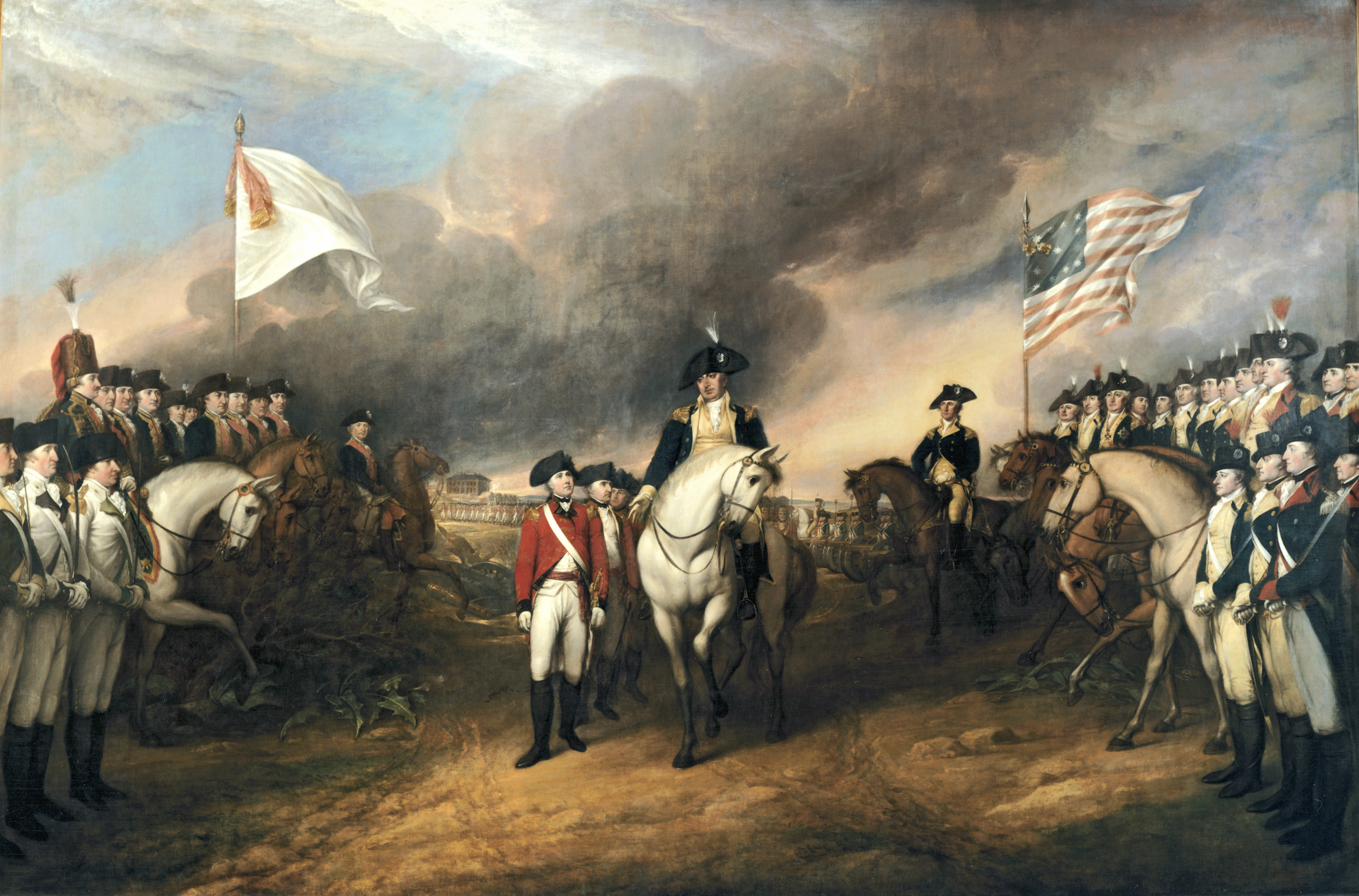 This painting depicts the forces of British Major General Charles Cornwallis, 1st Marquess Cornwallis (1738–1805) (who was not himself present at the surrender), surrendering to French and American forces after the Siege of Yorktown (September 28 – October 19, 1781) during the American Revolutionary War. The central figures depicted are Generals Charles O'Hara and Benjamin Lincoln. The United States government commissioned Trumbull to paint patriotic paintings, including this piece, for them in 1817, paying for the piece in 1820.